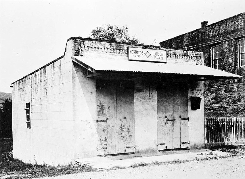 The Hornitos Masonic Hall — in the Gold Rush town of Hornitos, in Mariposa County, California The 1855 masonry building is on the National Register of Historic Places in Mariposa County. 1925 image: HABS—Historic American Buildings Survey of California.